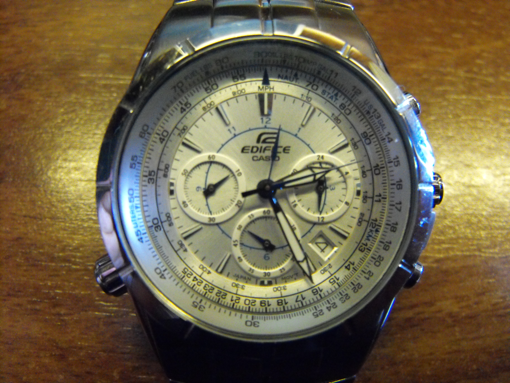 Hand watch with slide rule.